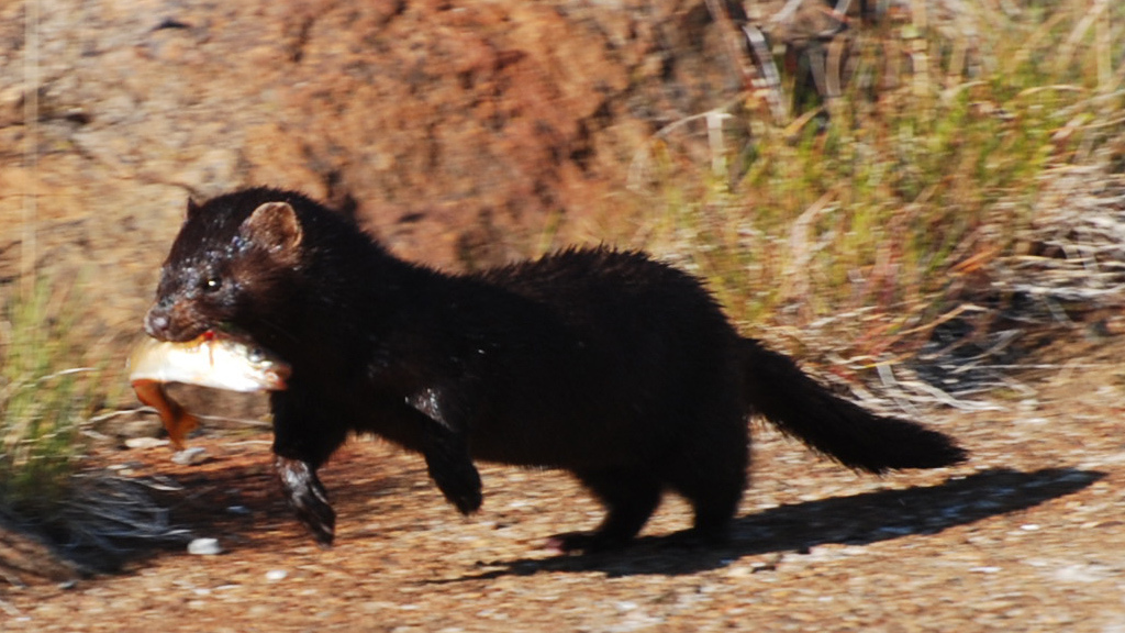 A mink with its catch at Litløy fyr (lighthouse) in Vesterålenn, Norway. Photo by Bjørn Tennøe